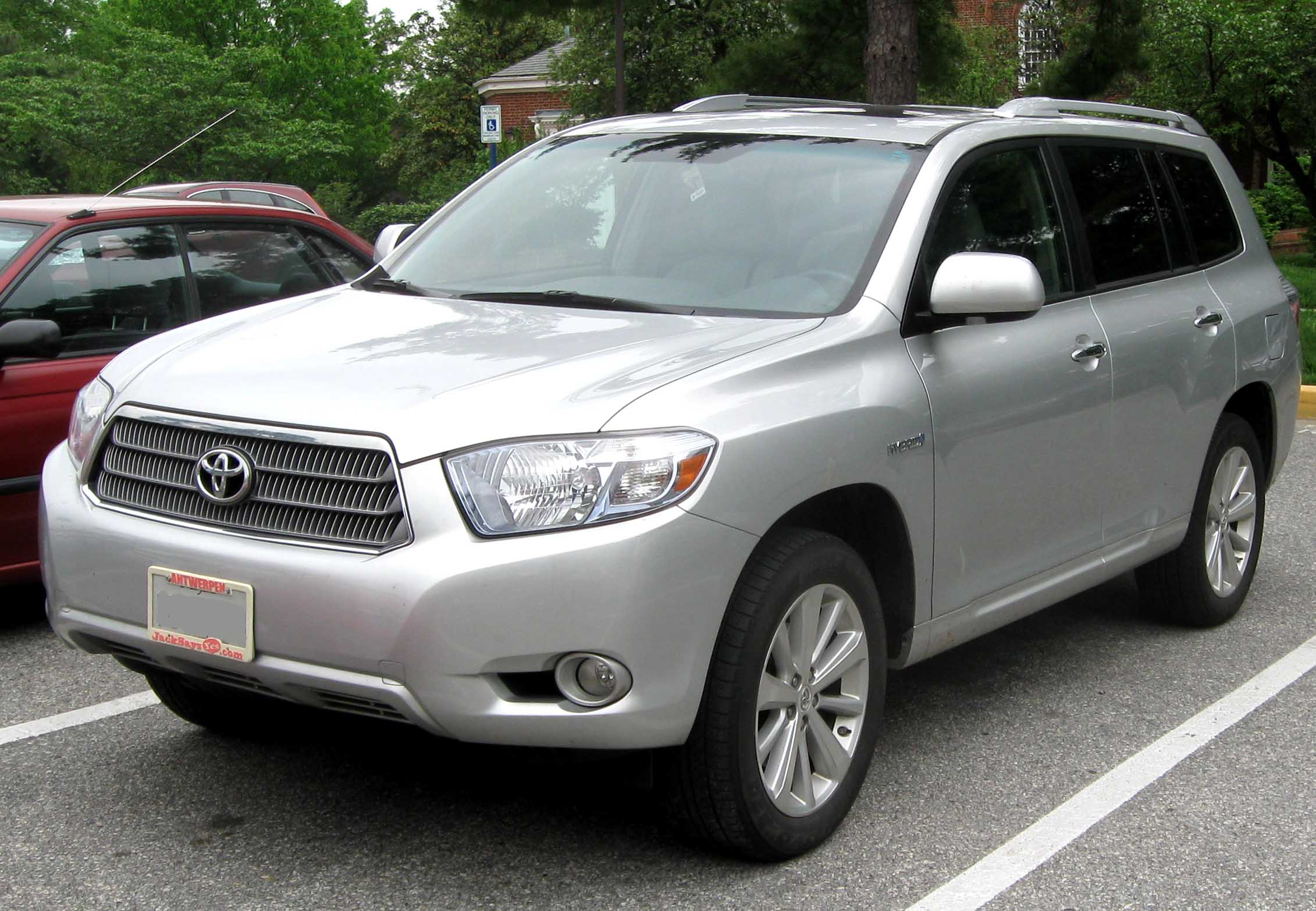 2008-2009 Toyota Highlander Hybrid photographed in College Park, Maryland, USA.